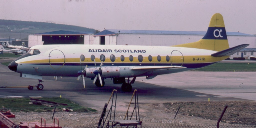 Vickers Viscount registered G-ARIR of Alidair at Aberdeen Airport, Scotland